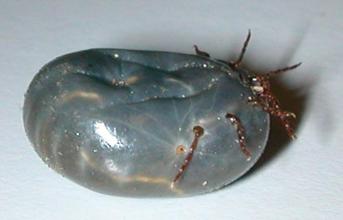 Haemaphysalis longicornis. Lateral view prominently showing spiracle.